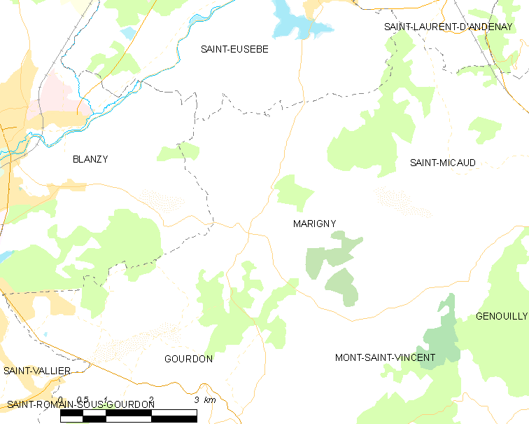 Map of French municipality